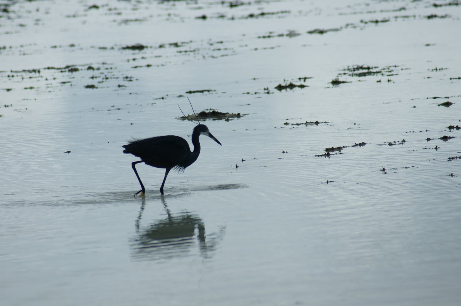 Egretta ardesiaca, Black heron on a beach in Nungwi, ZanzibarRomână: Egreta neagră, Egretta ardesiaca, pe o plaja in Nungwi, Zanzibar